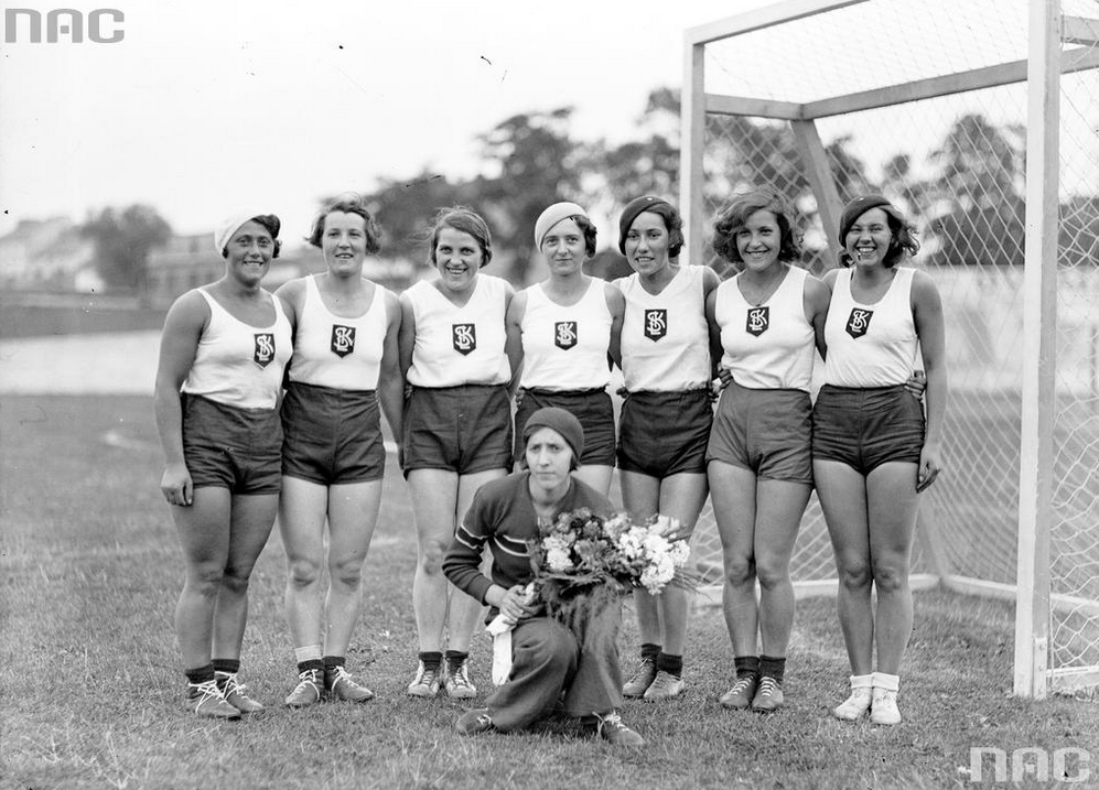 ŁKS hazena